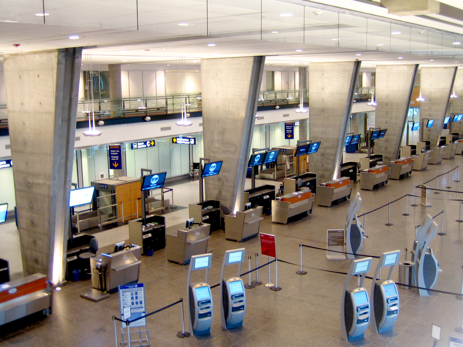 The new U.S. Departures sector at Montréal-Pierre Elliott Trudeau International Airport (YUL) in Septembre 2009.